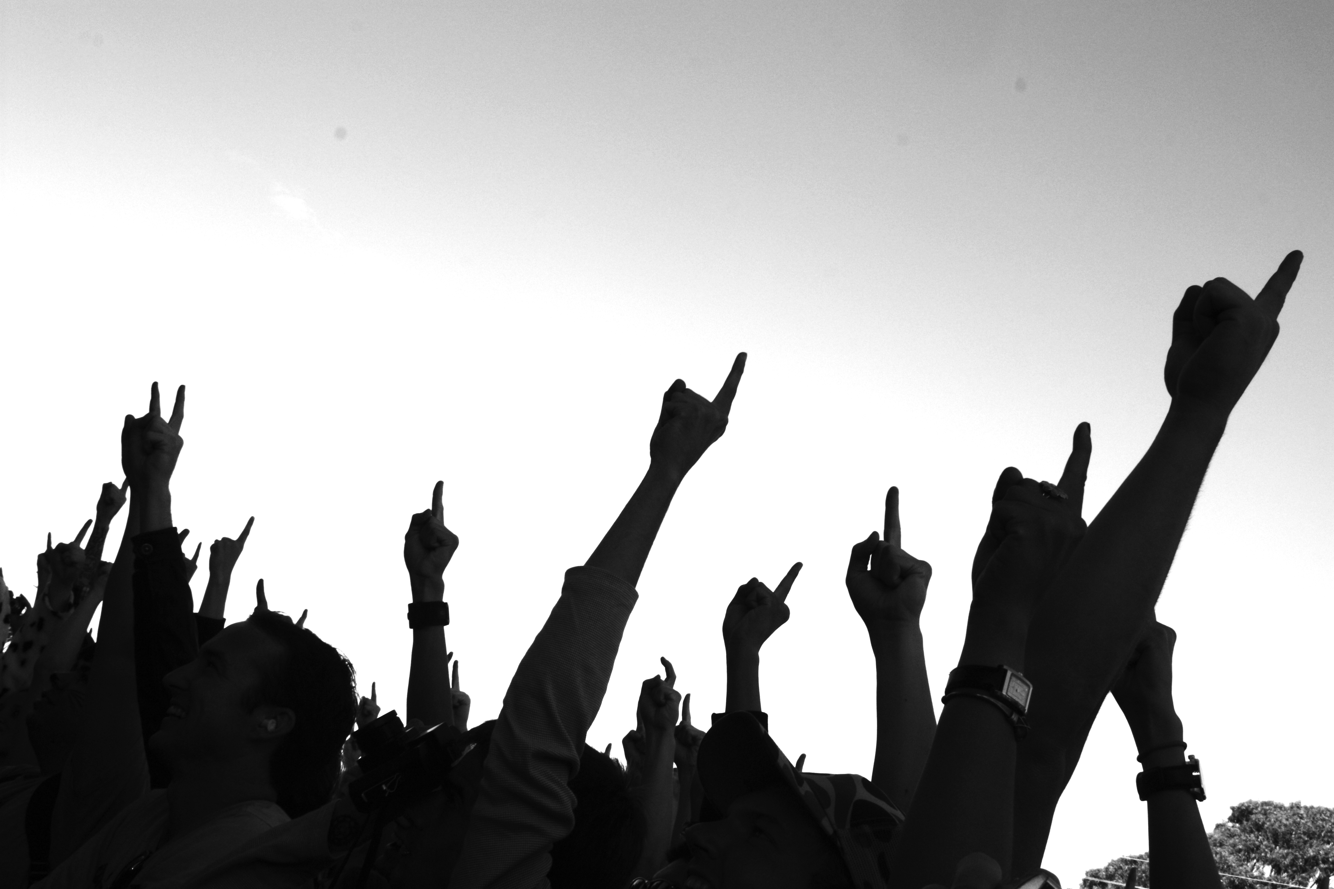 Audience at a Dan Deacon concert